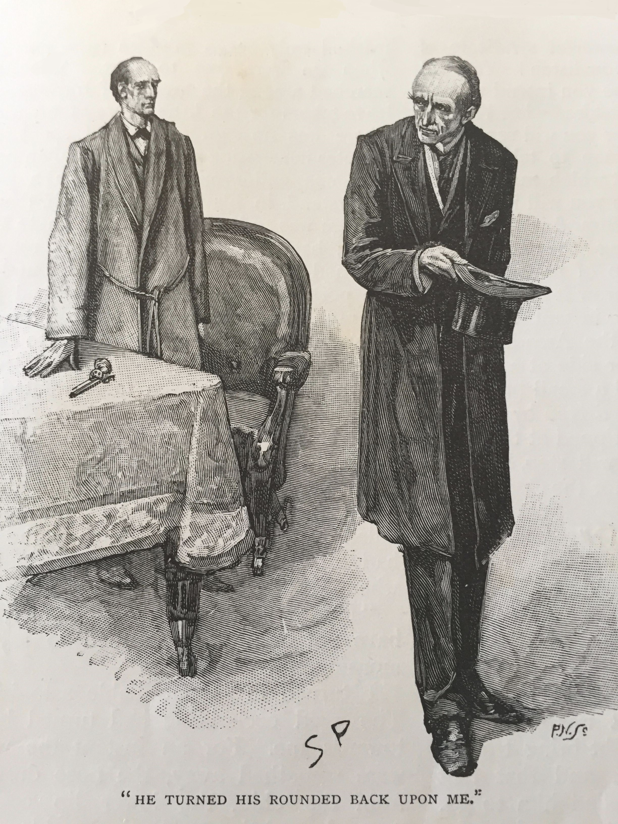 Arthur Conan Doyle, The Adventure of the Final Problem (1893), Illustration by Sidney Paget, in The Strand Magazine